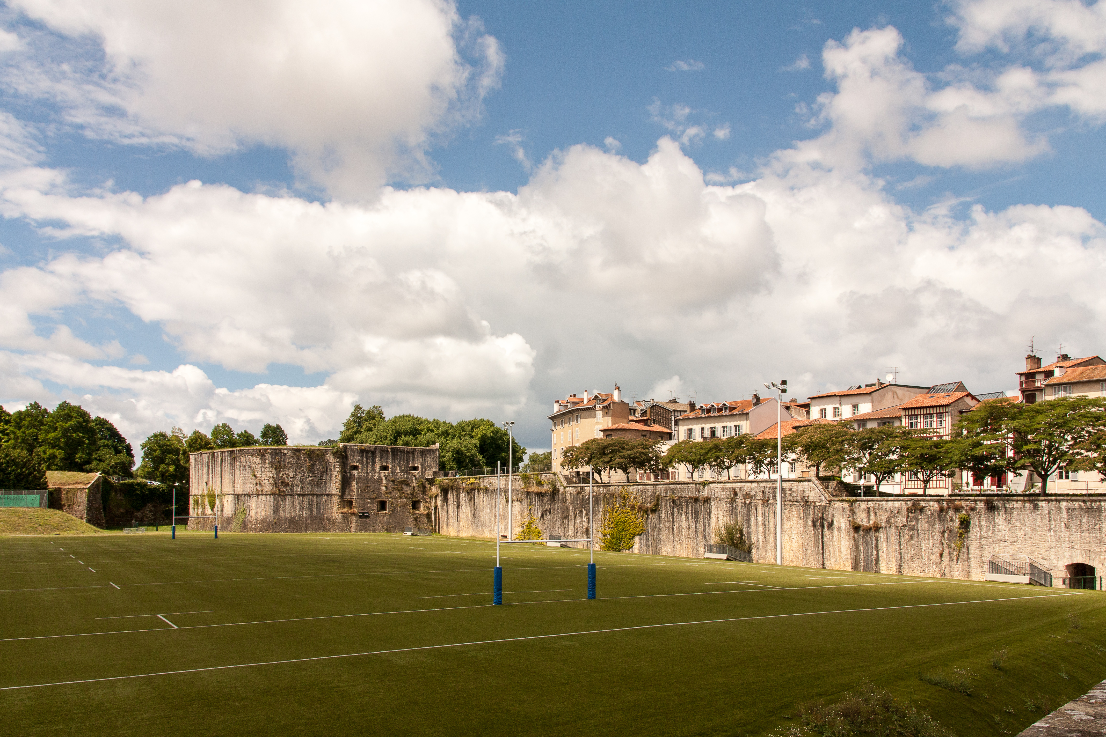 Christian Bélascain stadim, covering a car park in the ditch on the south wall.